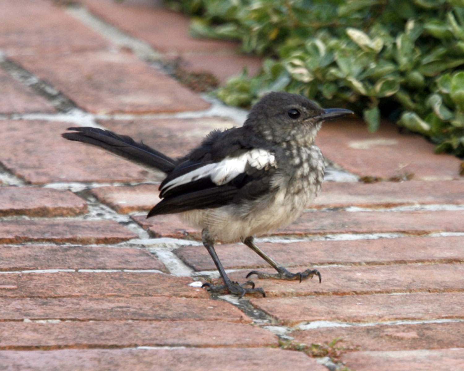 Oriental Magpie Robin (Copsychus saularis musicus) A juvenile in the Botanic Gardens, Singapore on 21 July 2006. Also known as: Asian Magpie Robin, Asian Magpie-Robin, Dhyal, Dhyal Thrush, Dyal, Dyal Thrush, Magpie Robin, Magpie-Robin, Oriental Magpie Robin, Oriental Magpie-Robin, Robin Dayal. Thai: นกกางเขนบ้าน